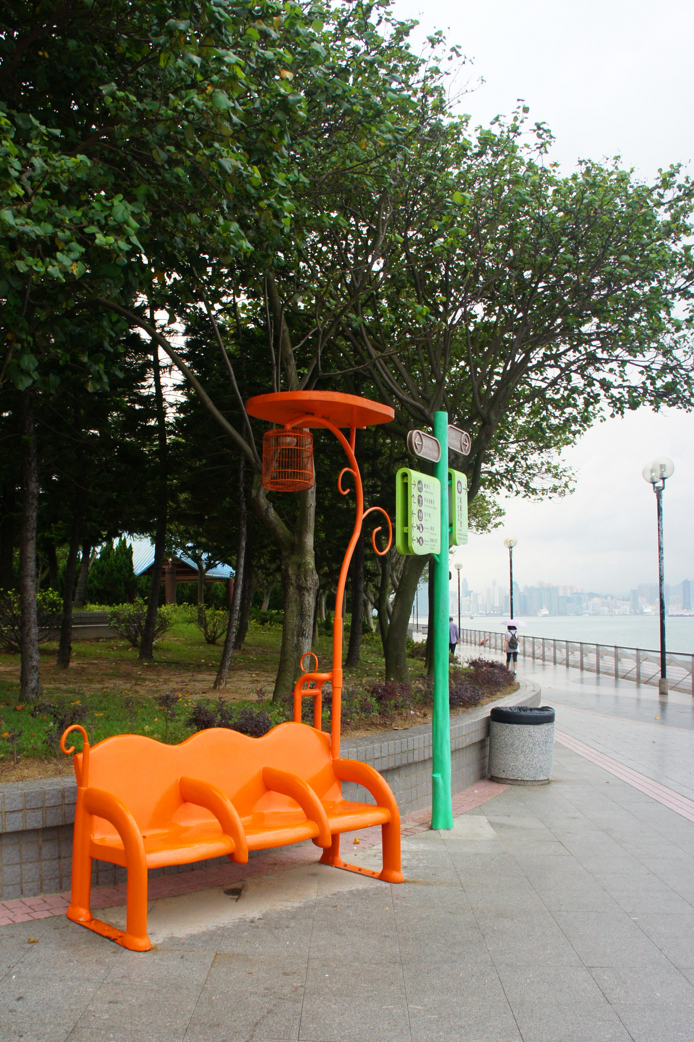 Park Déco in Quarry Bay Park, Hong Kong. The "Branches" bench is fitted with a curled bud for visitors to hang their personal belongings as well as a solar-powered garden lamp in the form of a birdcage.